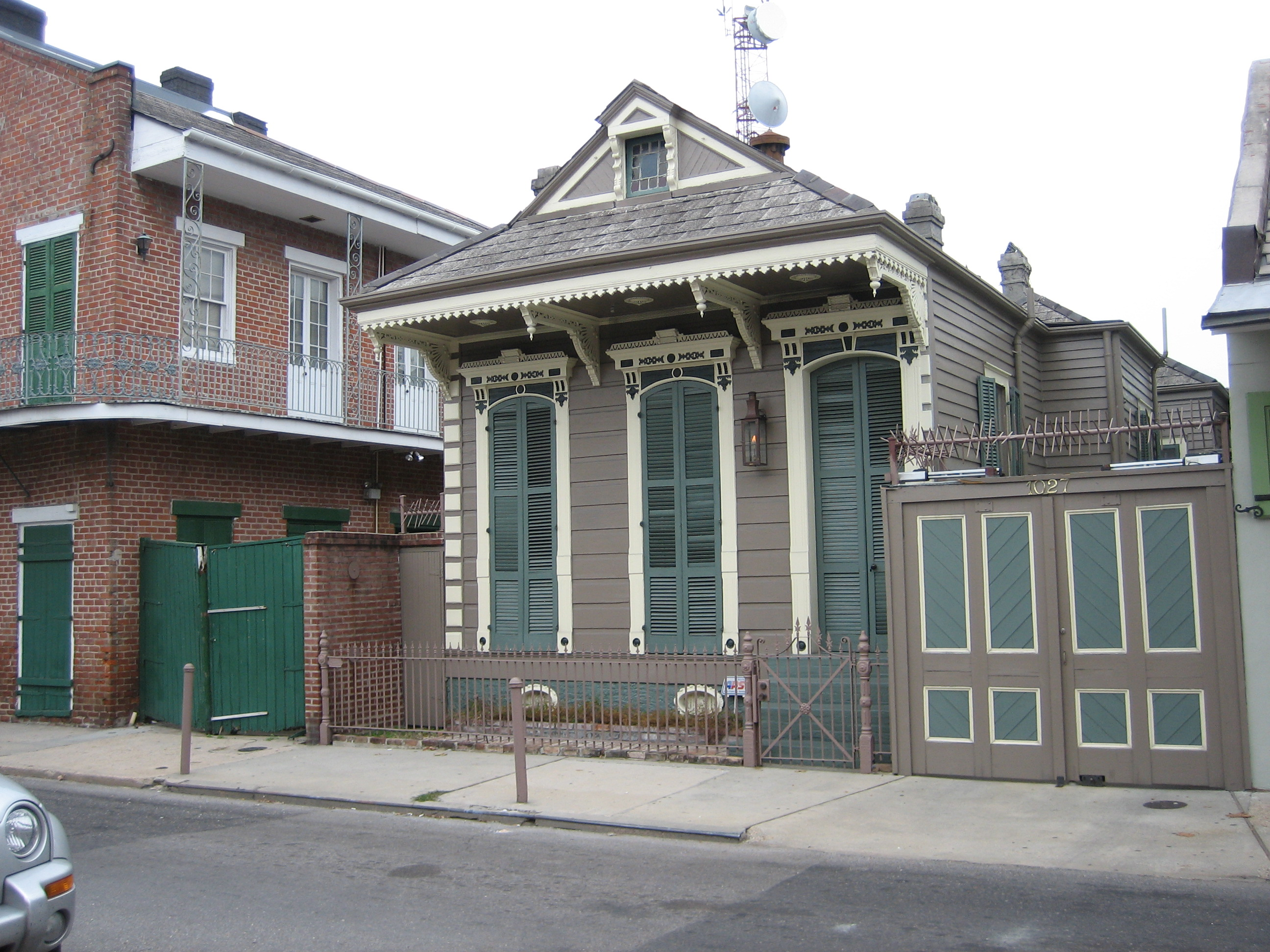 House in French Quarter, New Orleans